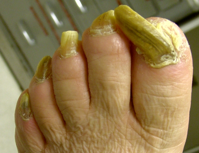 Taken in my medical practice by DrGnu. I hold the agreement. There is no identifier in the picture.